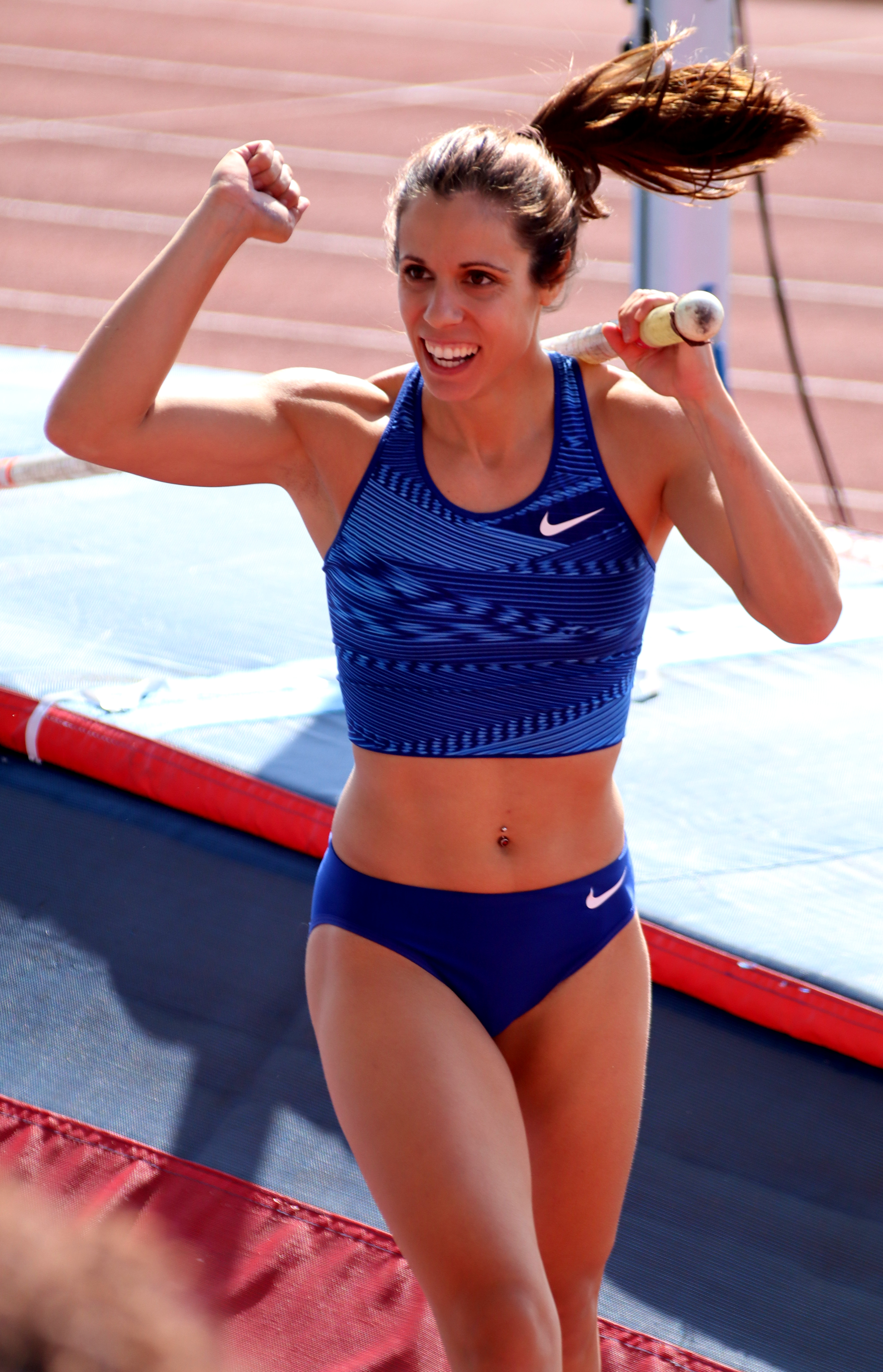 Pole vaulter Katerina Stefanidi at the 2019 Birmingham Grand Prix